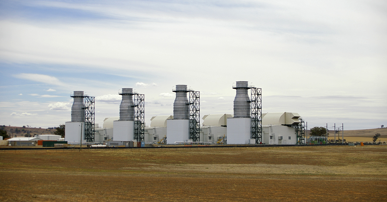 Uranquinty Power Station, owned by Origin Energy, located approximately 3 km northwest of the small town Uranquinty, New South Wales.